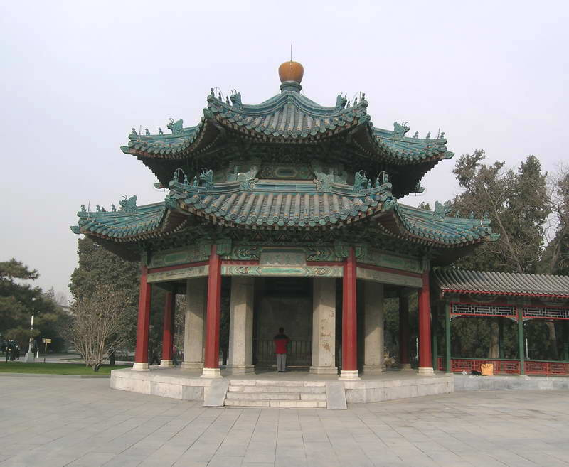 The Lanting octastyle pavilion